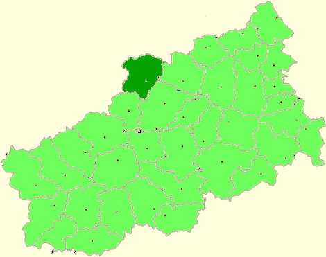 Tver Oblast map by Al Silonov